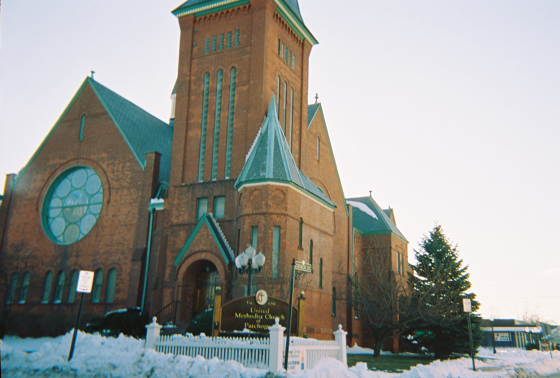 View of the historic United Methodist Church on the corner of South Ocean Avenue and Church Street in Patchogue, New York. Object location40° 45′ 51.98″ N, 73° 00′ 52.63″ W